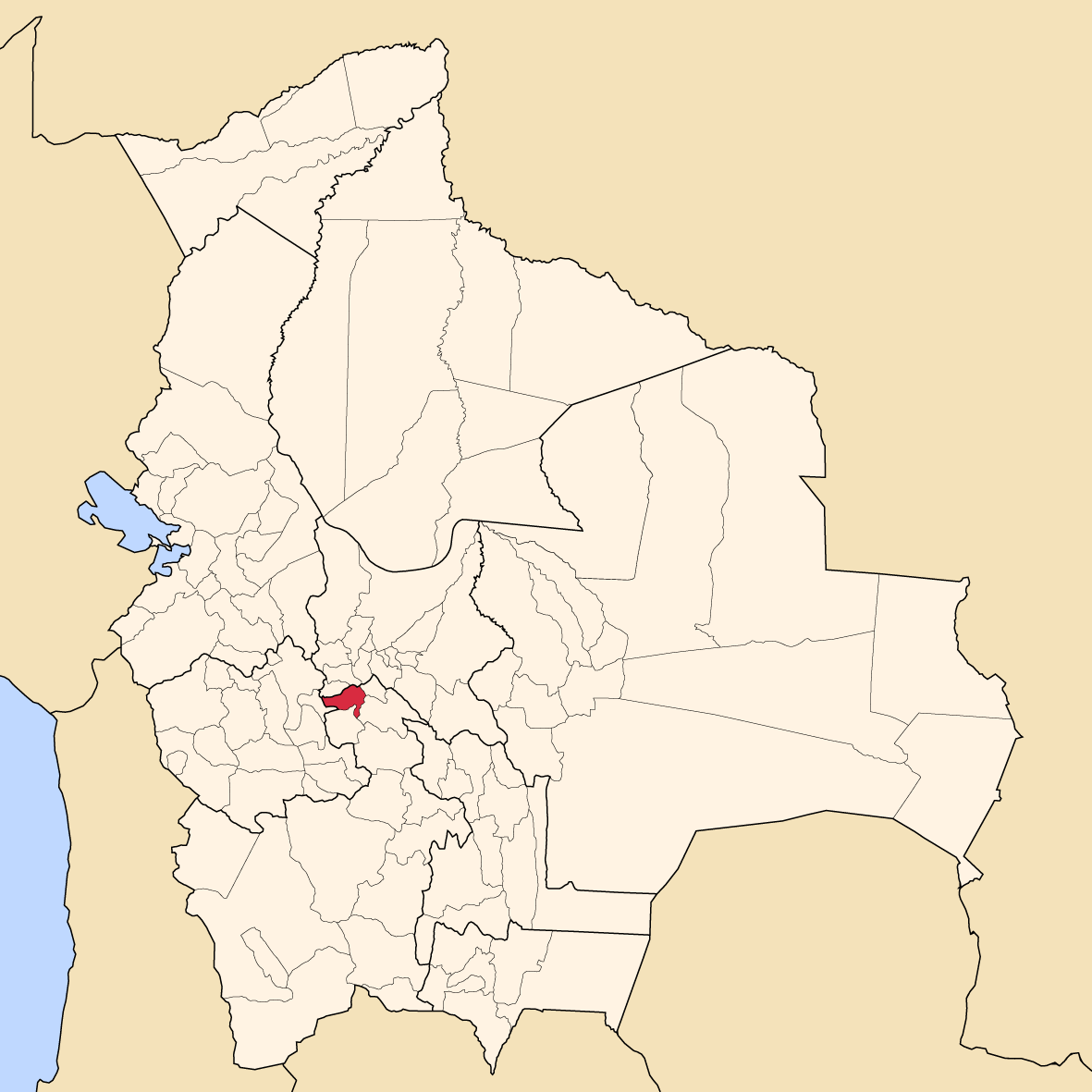 Map of Bolivia showing Alonso de Ibáñez province, Potosí